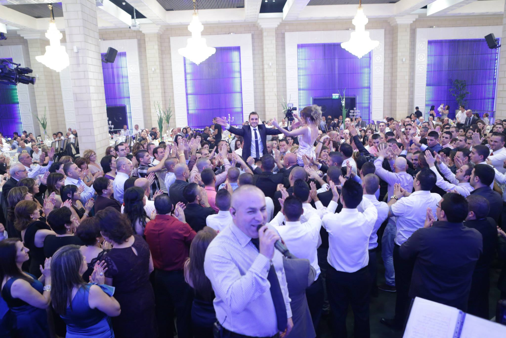 Arab christian wedding party